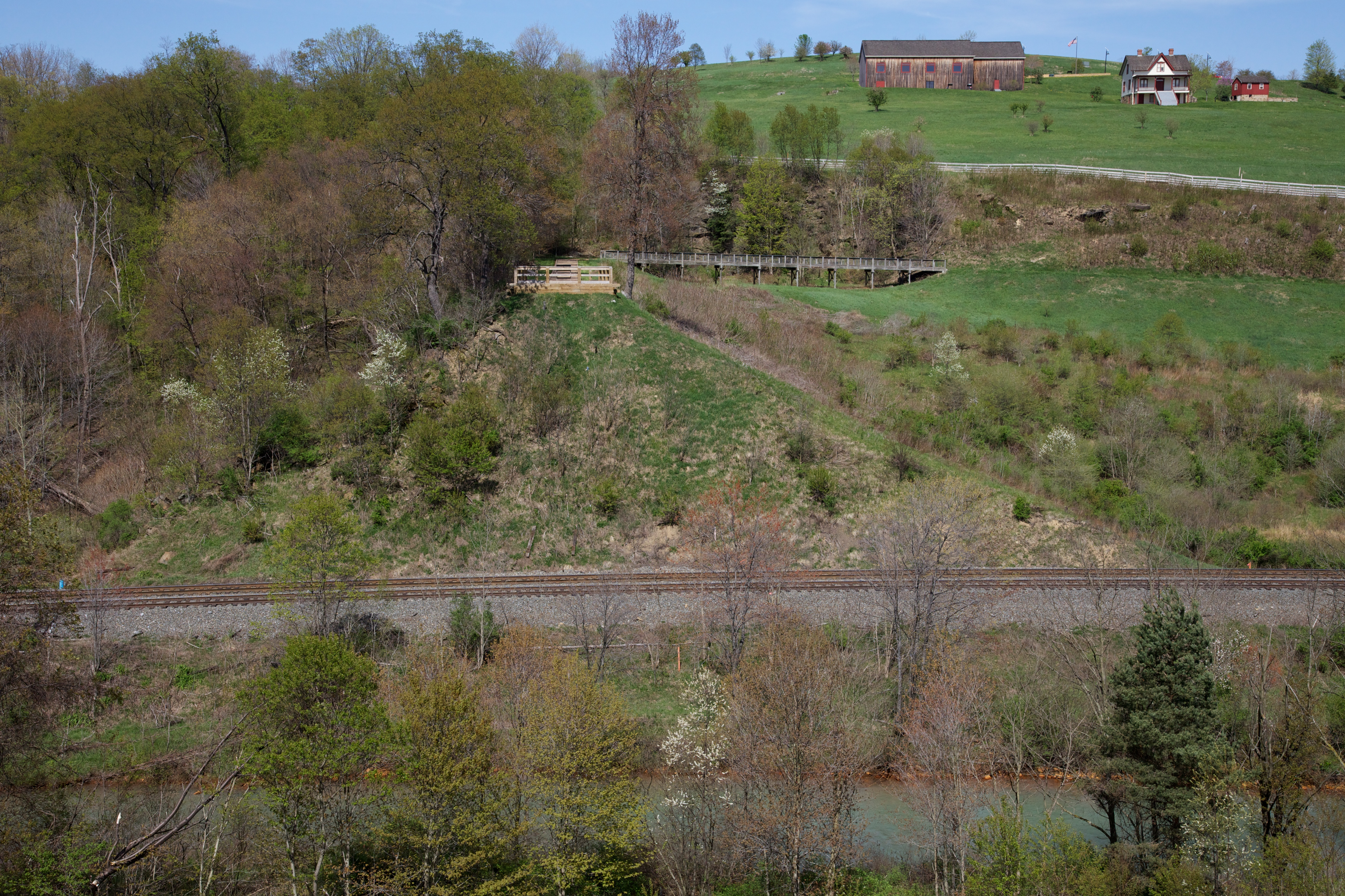 Viewing the eastern end of the broken dam from the western end. You can see the sloping sides of the dam from the narrow top with the viewing platform. The lake was to the right. The large building above is the Park Headquarters and the small red house to the right is the Unger House (I have posted a separate picture). The rail line is the Norfolk Southern (formerly Pennsylvania Railroad) Main Line from Philadelphia to Pittsburgh. The river on the bottom is the South Fork of the Connemaugh which gave the dam and the Club its name.